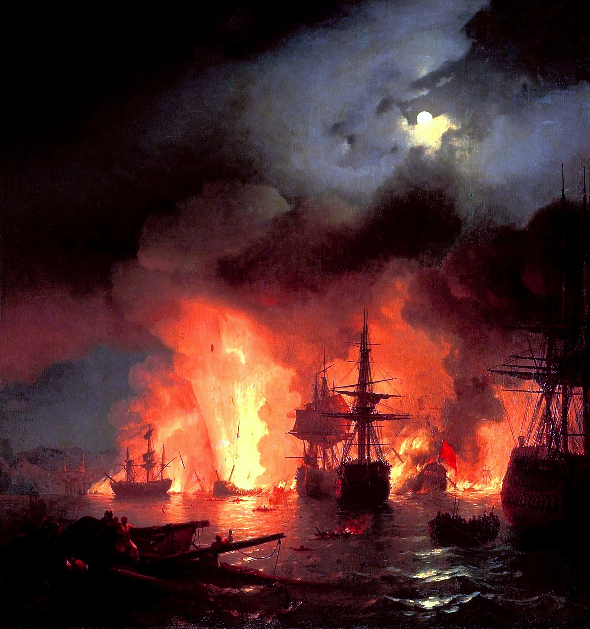 Chesme battle in the night of June 25-26, 1770